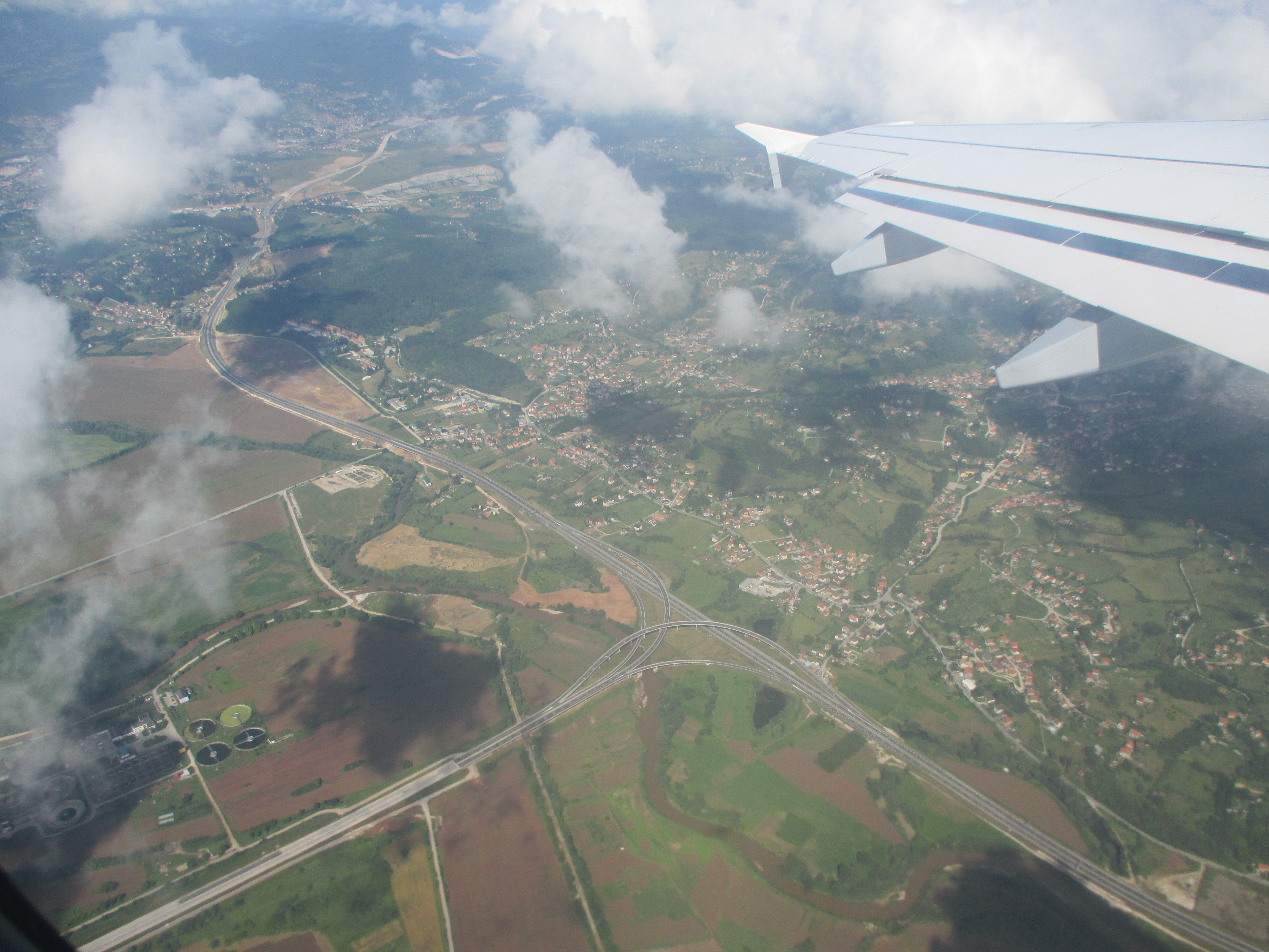 Start of the Sarajevo Bypass from the A1 (Dobroševići) towards Stup